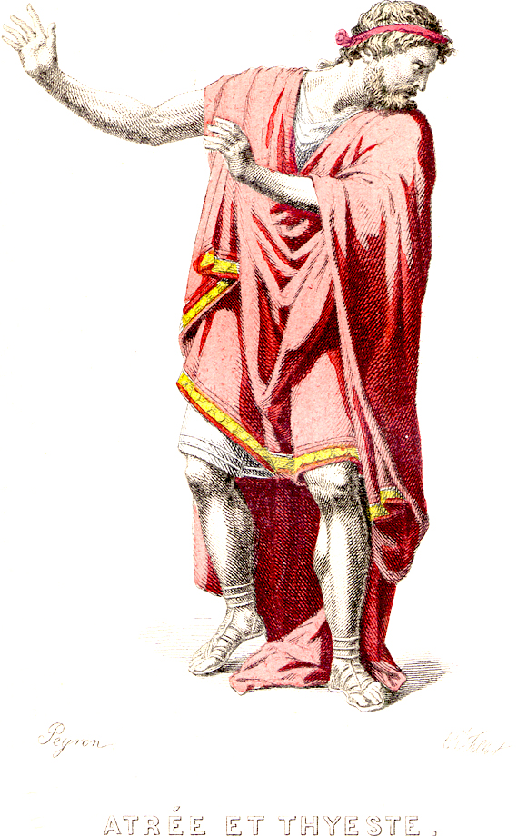 First page of Atrée et Thyeste (1707) a tragedy by Crébillon Sr. (1674-1762)